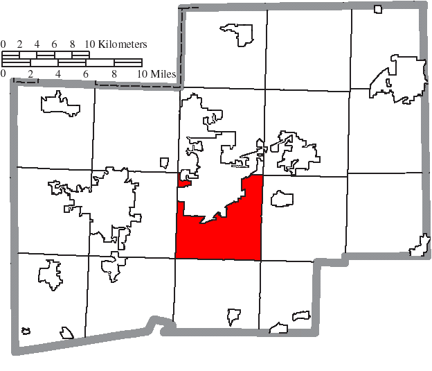 Map of the municipal and township boundaries of Stark County, Ohio, United States, as of the 2000 census, with the location of Canton Township highlighted. Township borders are shown only in unincorporated areas in order to differentiate incorporated and unincorporated areas more clearly.